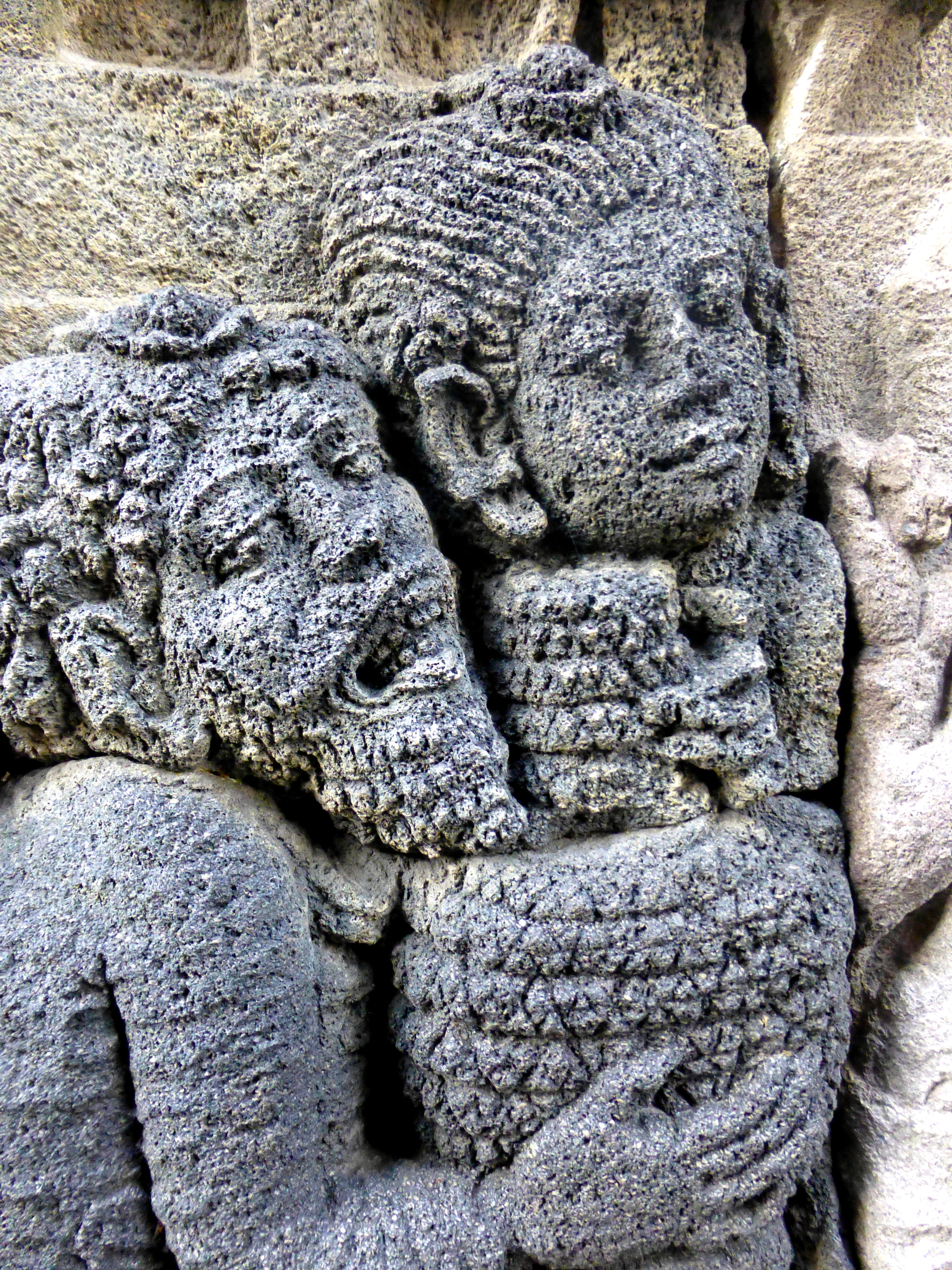 075 Offerings, Brahma Temple, Prambanan, Central Java Photograph from Prambanan temple compound near Yogyakarta in Java, Indonesia taken by Anandajoti.